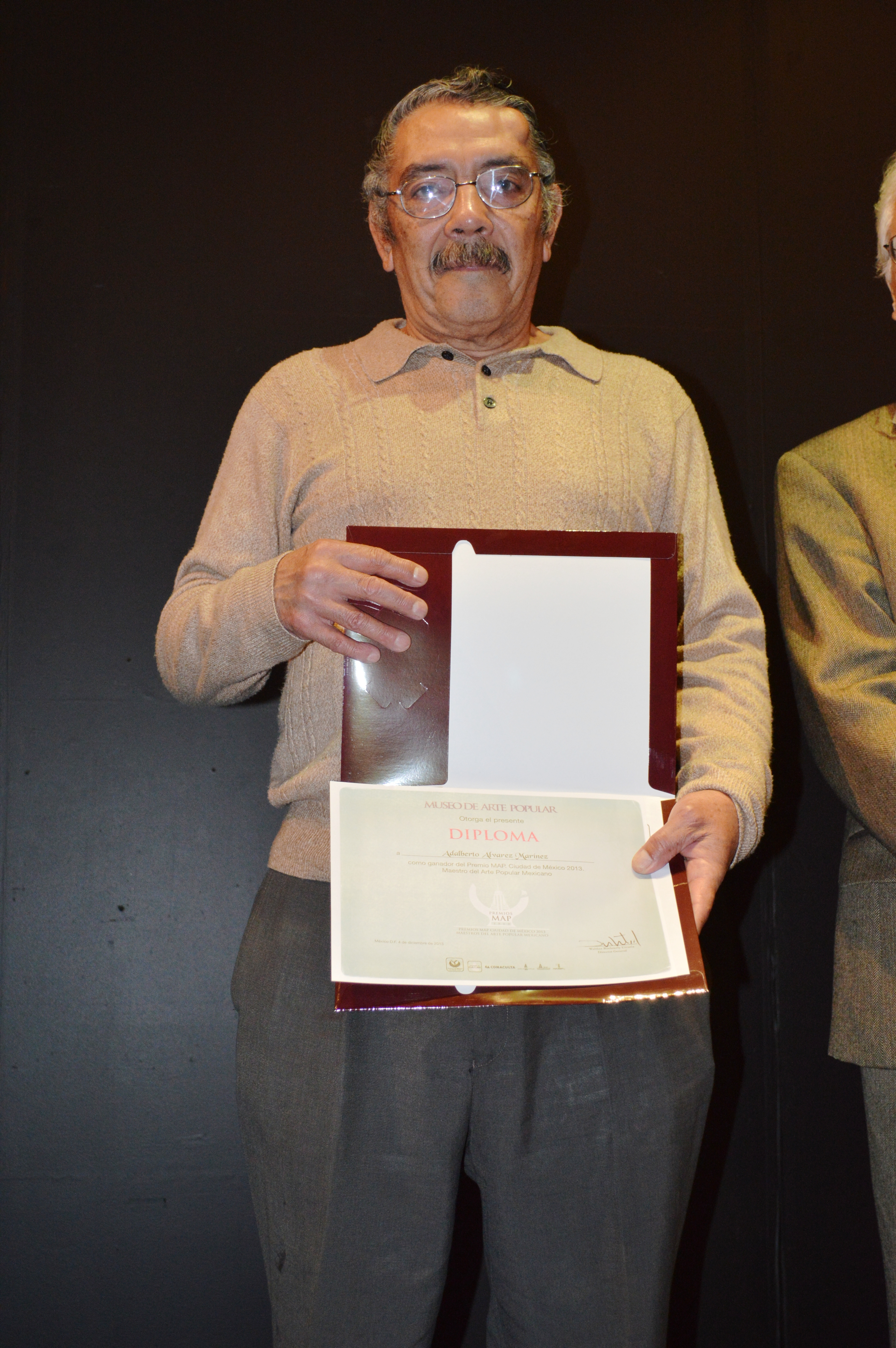 Adalberto Alvarez Martinez at the award ceremony Maestros de Arte Popular Mexicano 2013 at the Museo de Arte Popular in Mexico City